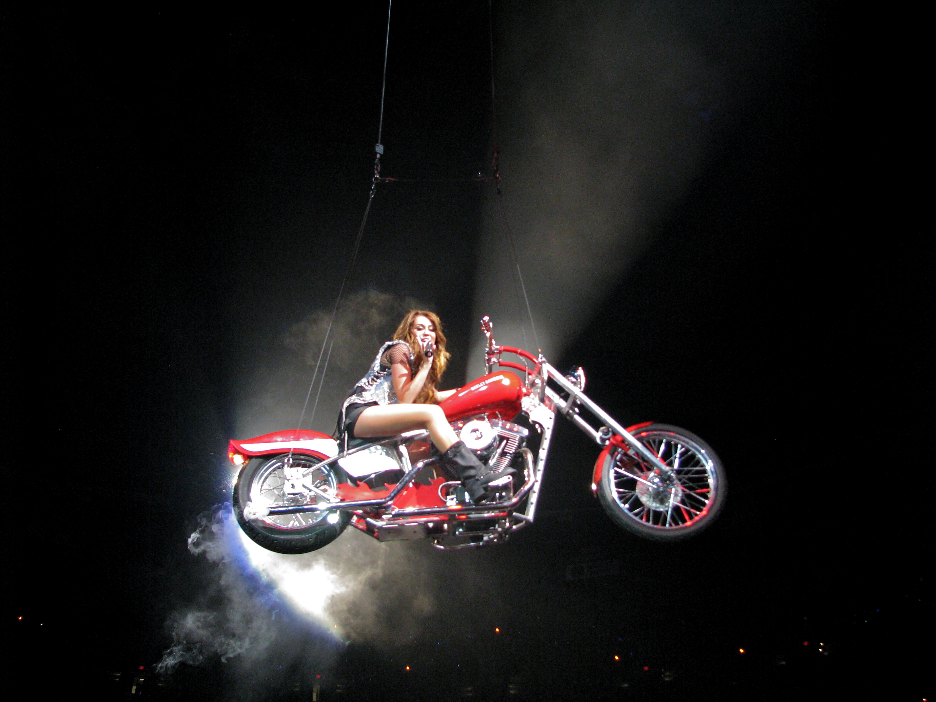 A teen singing.